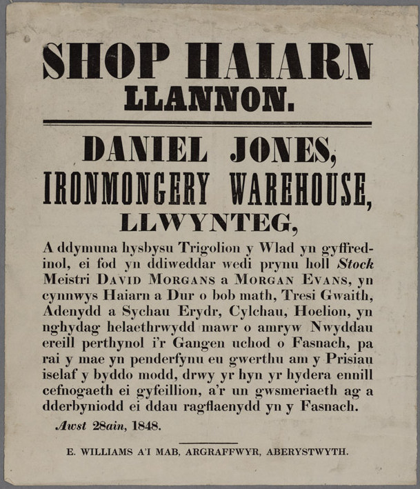 Shop Haiarn Llanon